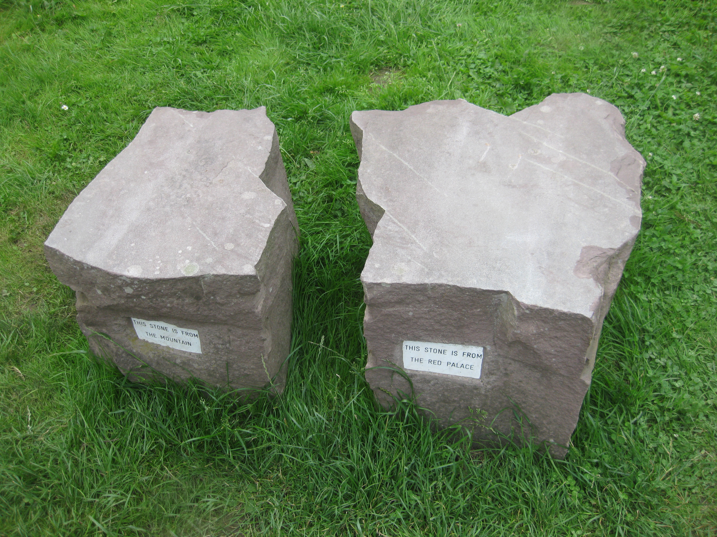 "This Stone is from the Mountain / This Stone is from the Red Palace" by Jimmie Durham